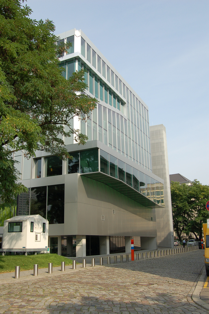 Embassy of the Netherlands in Berlin.